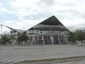 Auditorio Juan Pachín Vicéns, Bo. Canas Urbano, Ponce, Puerto Rico, mirando al oeste